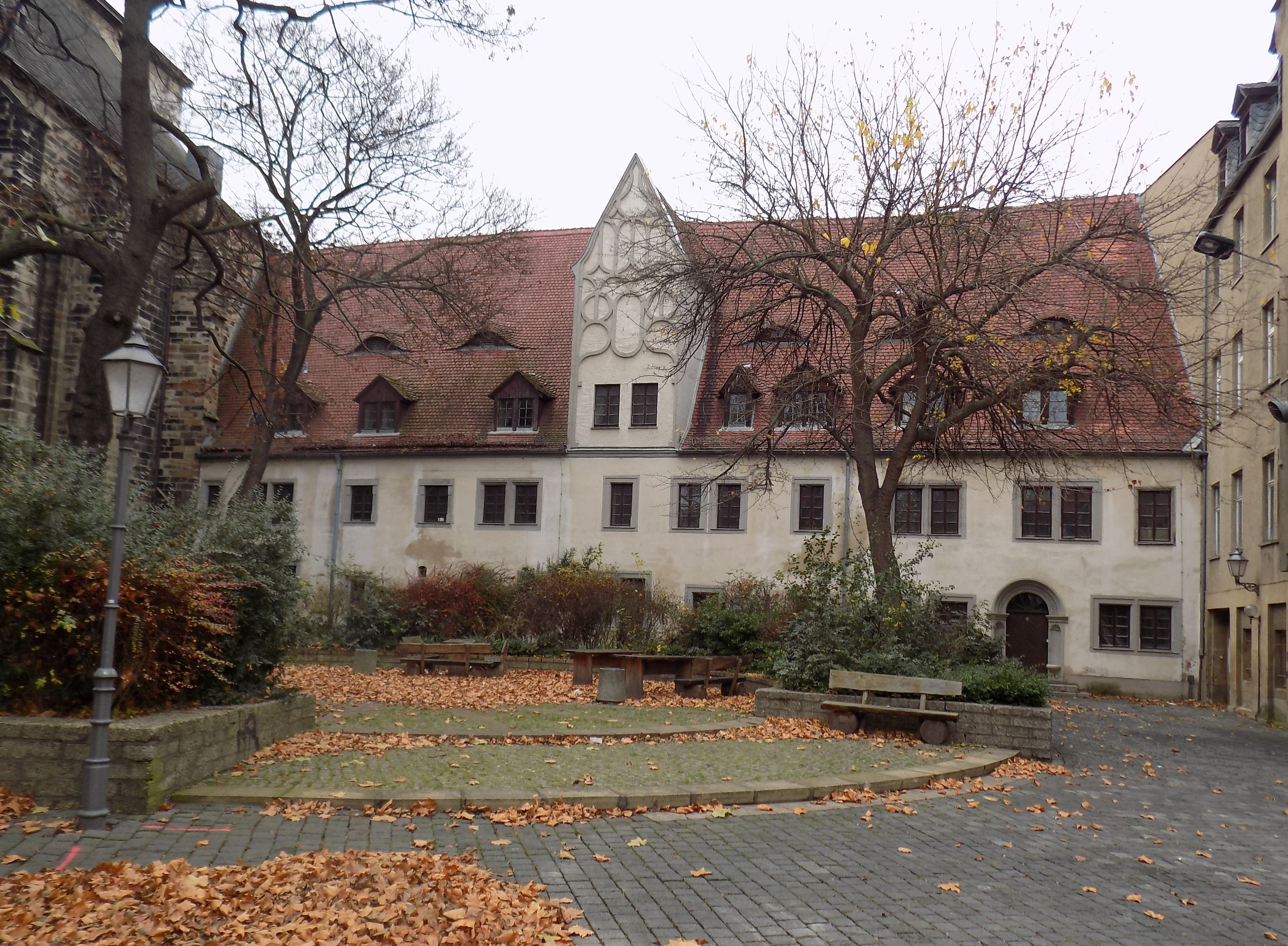 Former St. John's Hospital in Halle/Saale (Saxony-Anhalt)